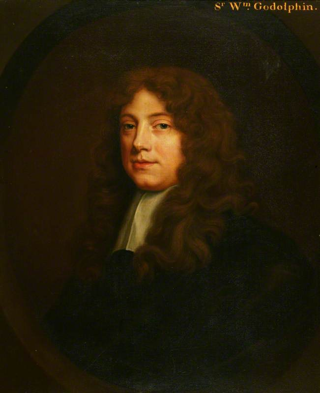 Three-quarter left side head and chest portrait of Sir William Godolphin, who was the English ambassador to Spain and an MP, wearing a long mid-brown wig and black coat, oil on canvas, Manchester Art Gallery, #1917.172. Attributed to Peter Lely (1618–1680).